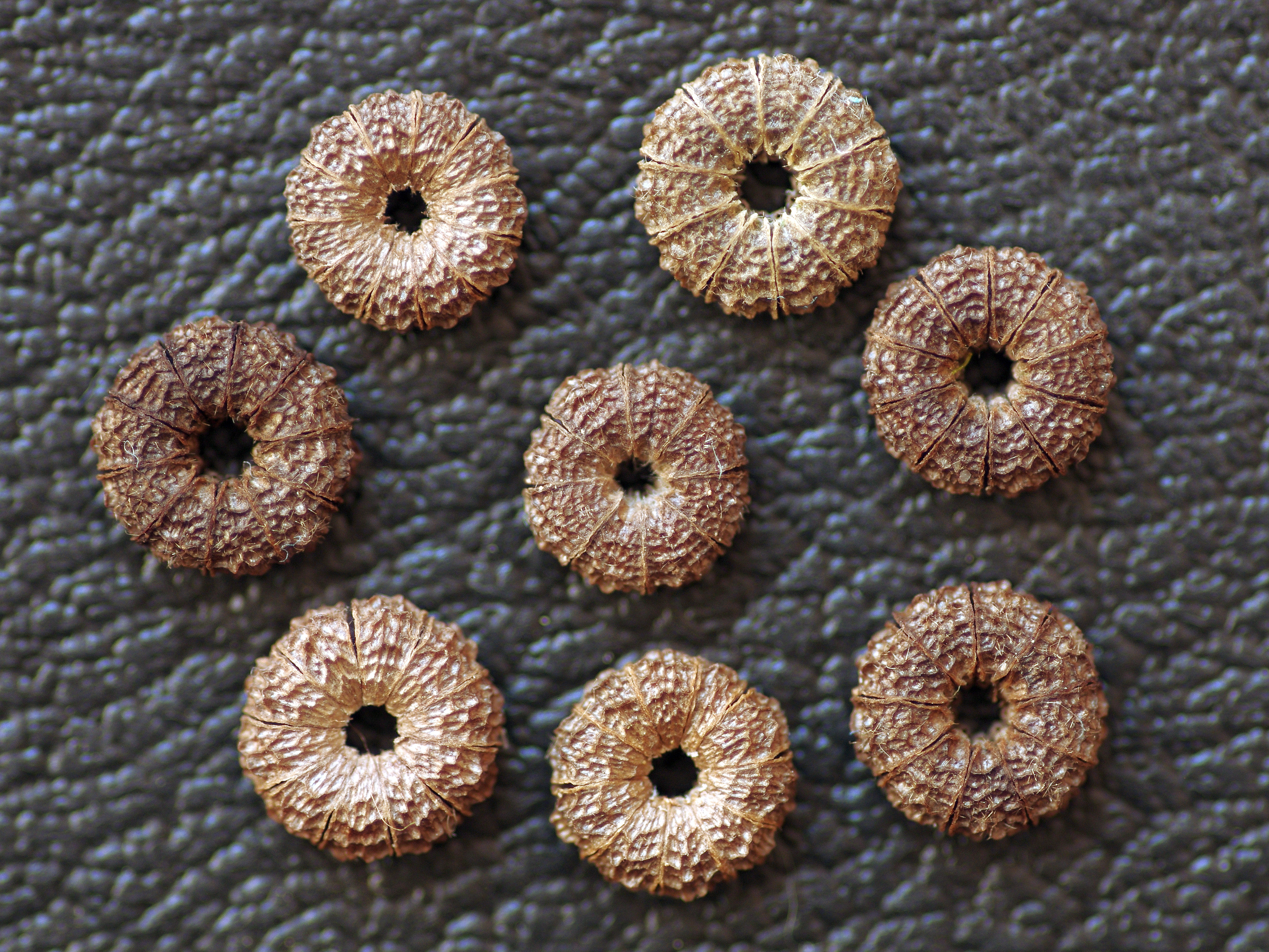 Mature seeds of Malva sylvestris var. mauritania